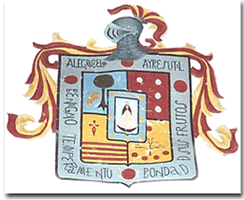 Photo of escudo of Encarnacion de Diaz